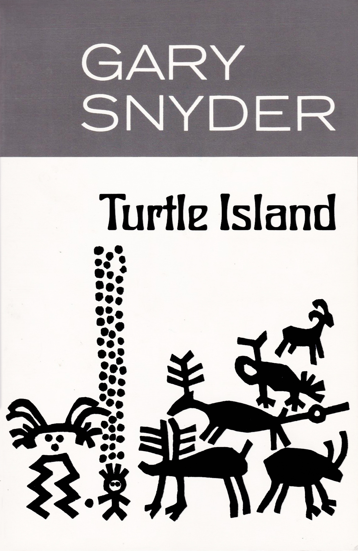 Cover design from the dust jacket for the hardcover first edition of Gary Snyder's 1974 poetry collection Turtle Island.